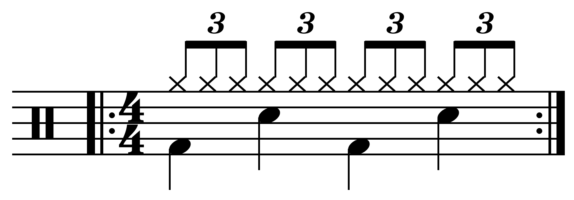 Jazz triplet subdivison.